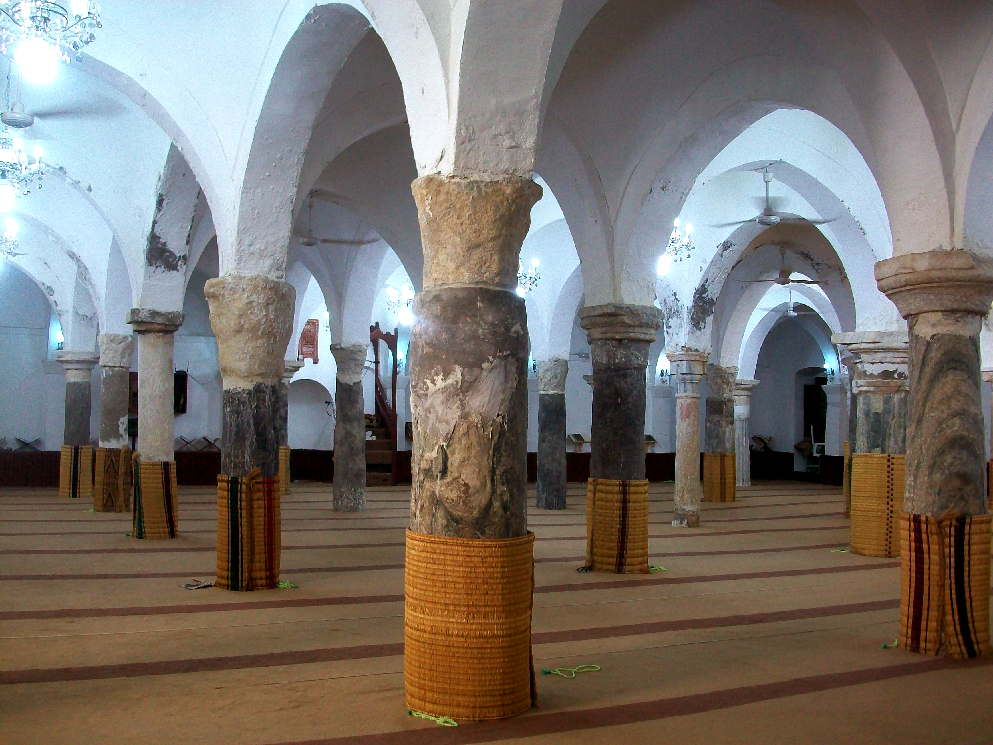 Interior of the Naga Mosque in Libya's capital Tripoli.